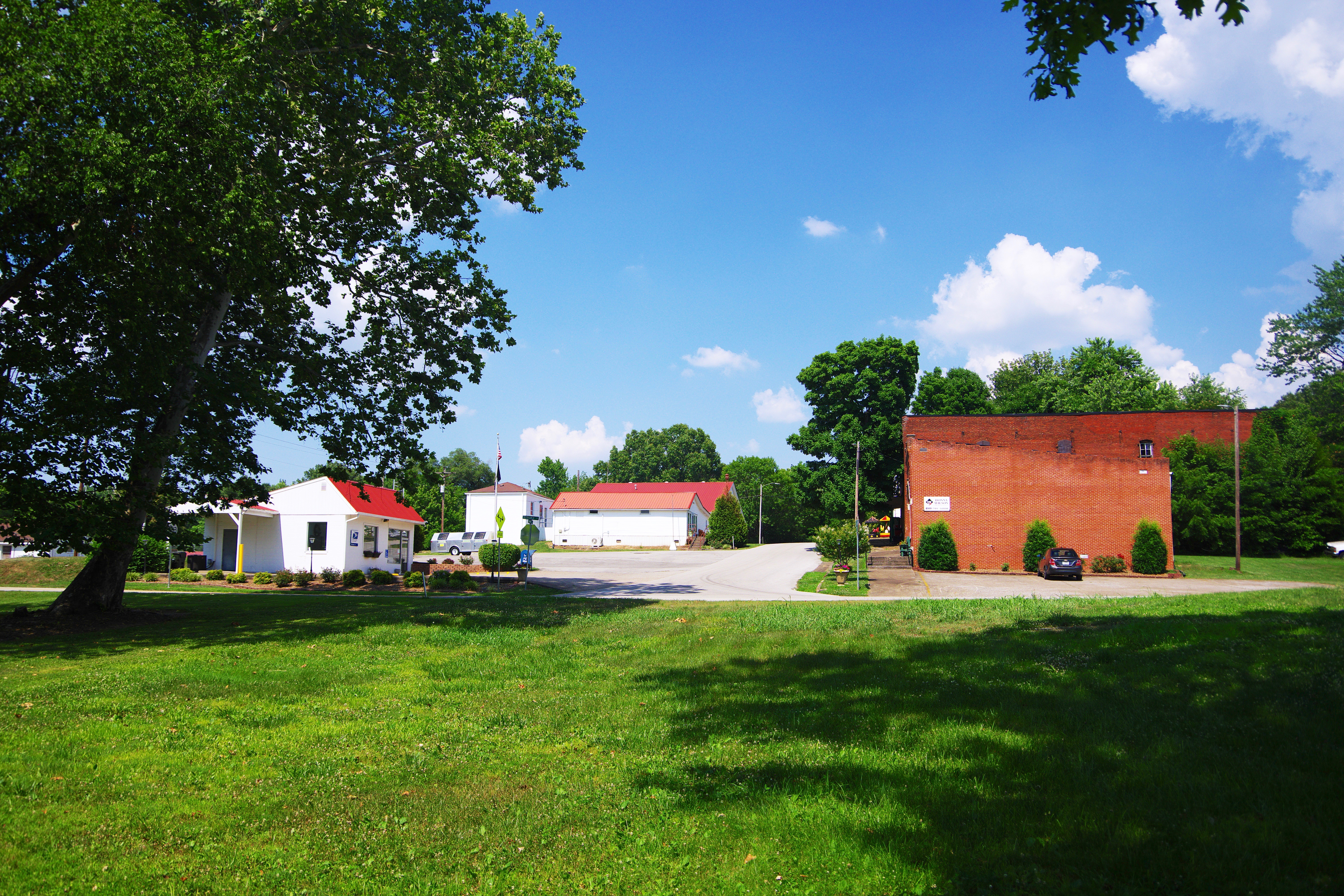 Buildings along Main Street in Rochester, Kentucky, United States.